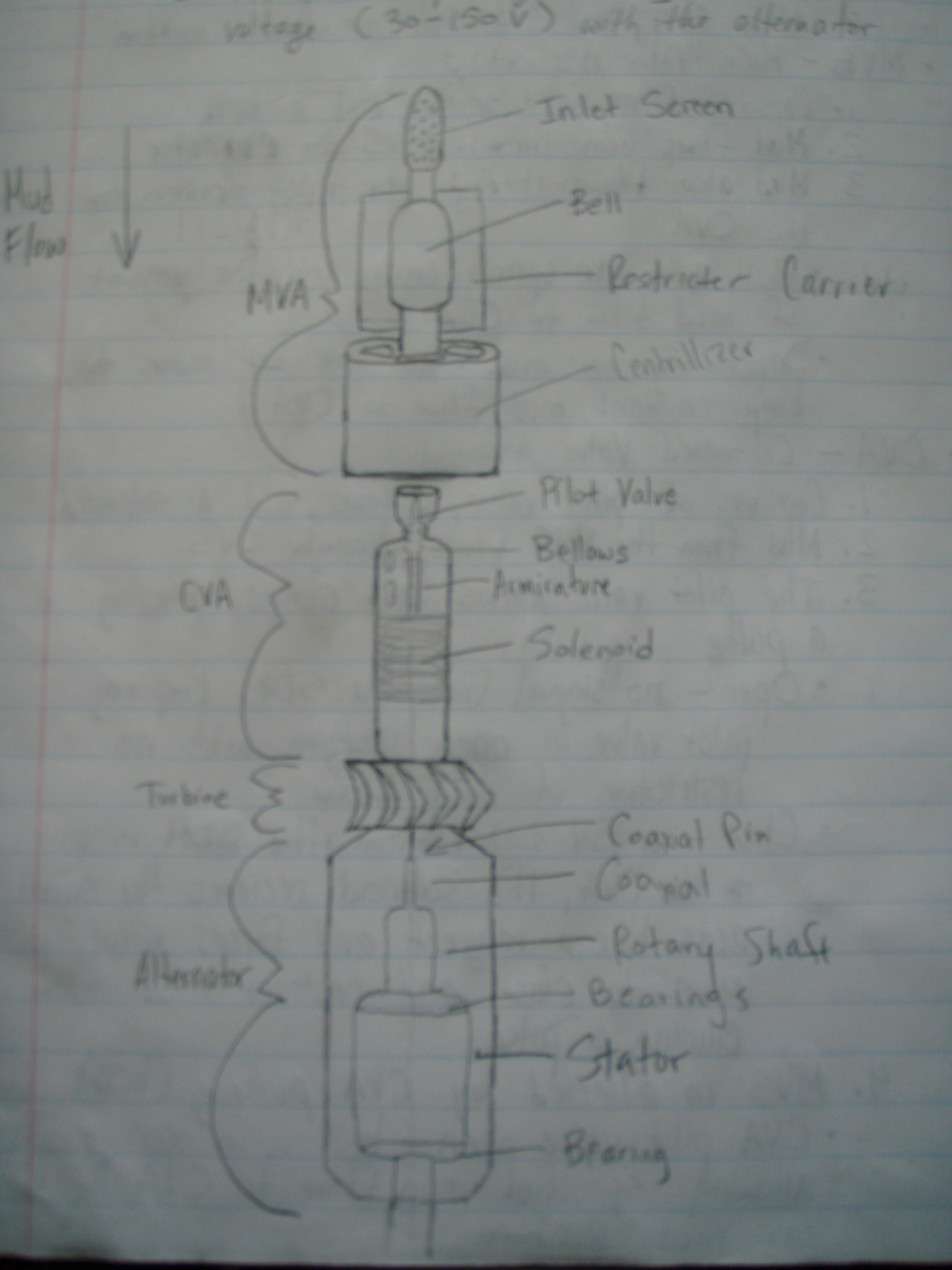 Diagram Showing the Measurement while drilling